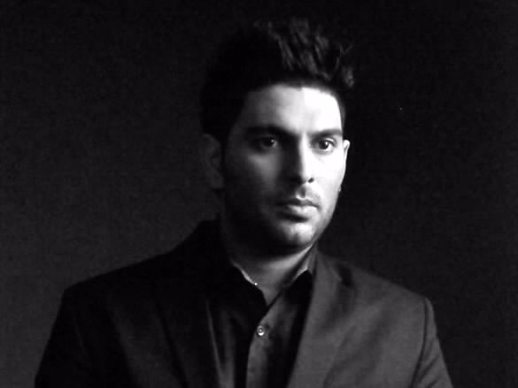 Yuvraj Singh shoots for Ulysse Nardin's watches